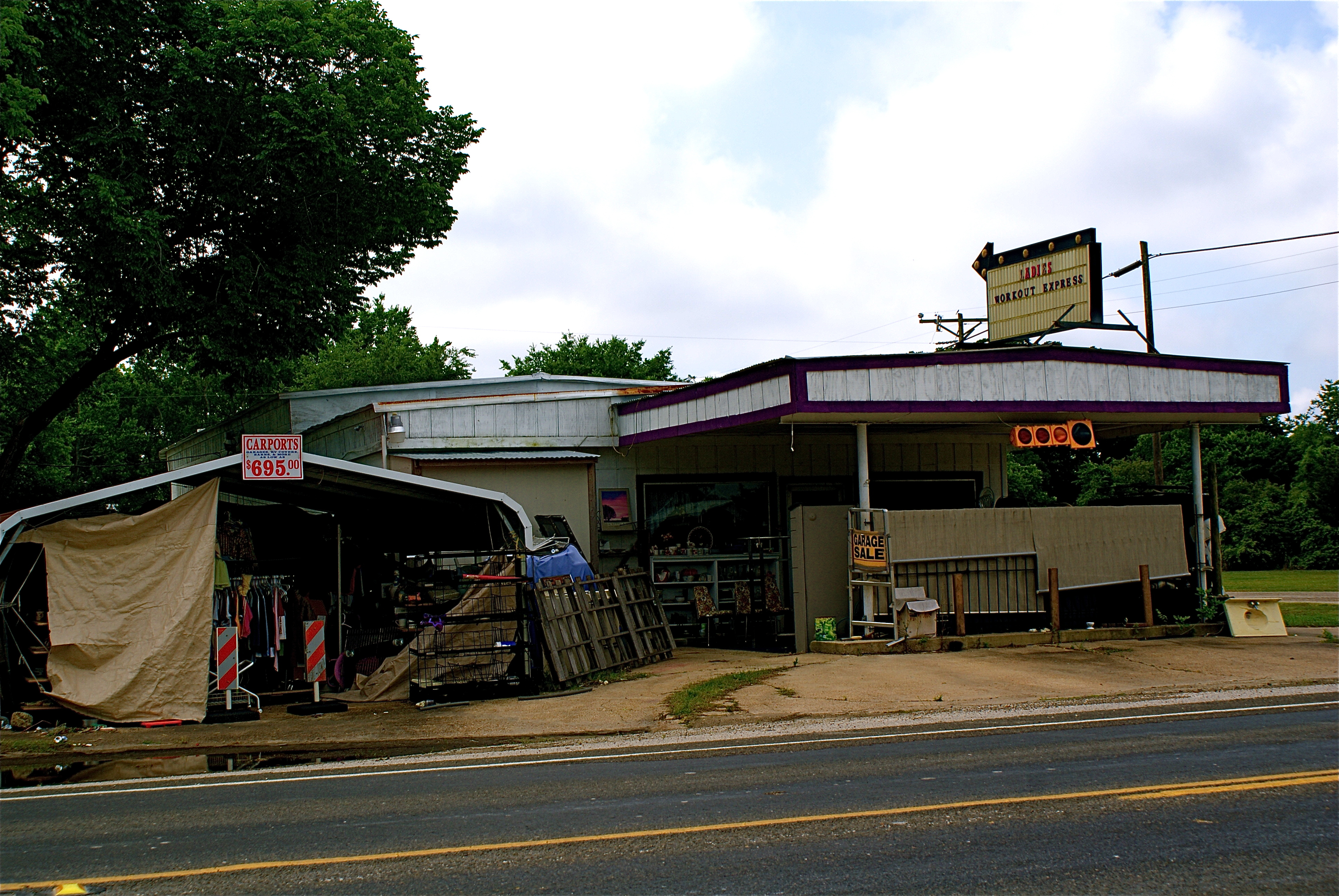 Junk shop in Shiro, Texas.